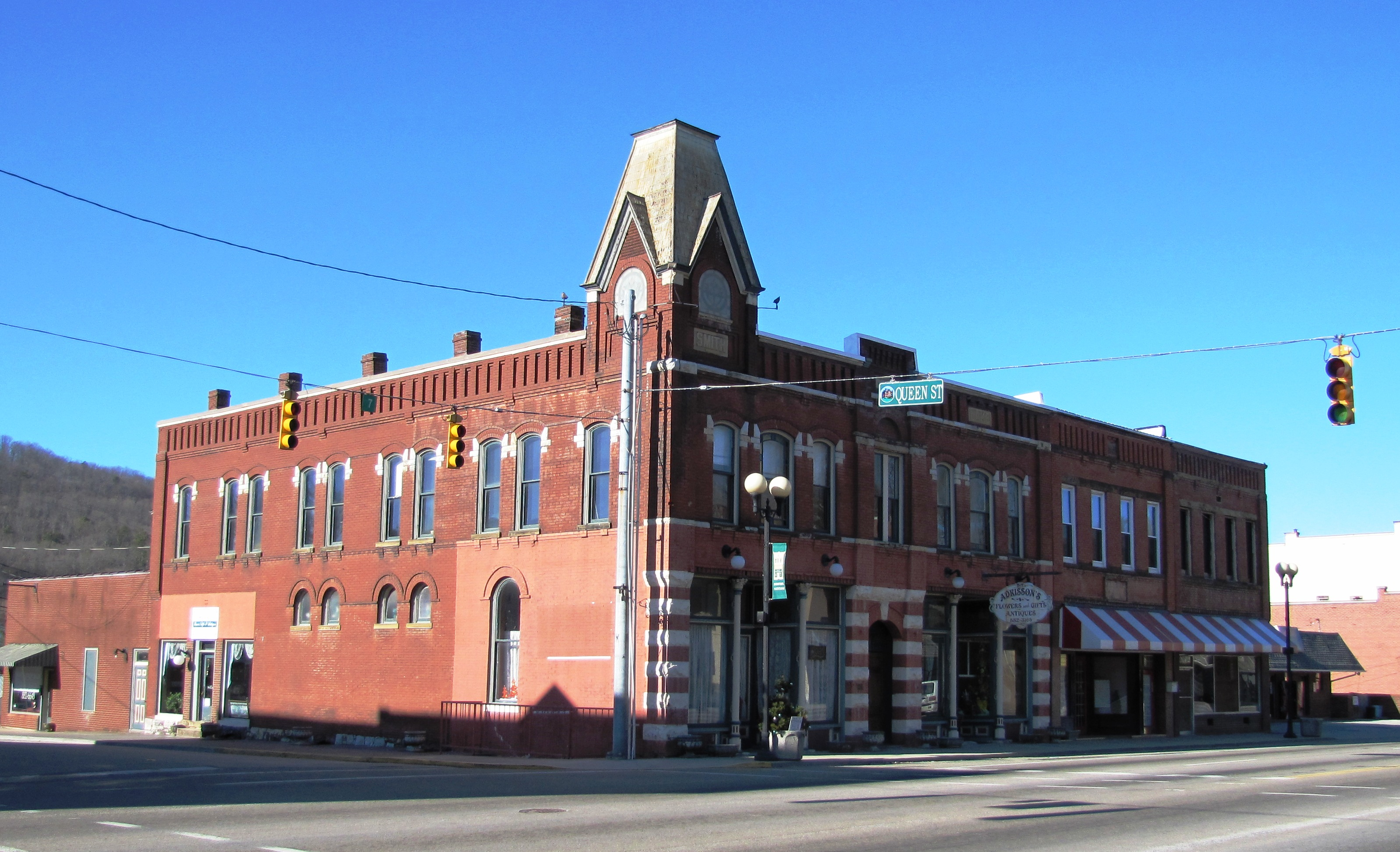 501-531 Roane Street in Harriman, Tennessee, USA, part of the city's Roane Street Commercial Historic District.